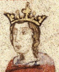 Charles Martel of Anjou